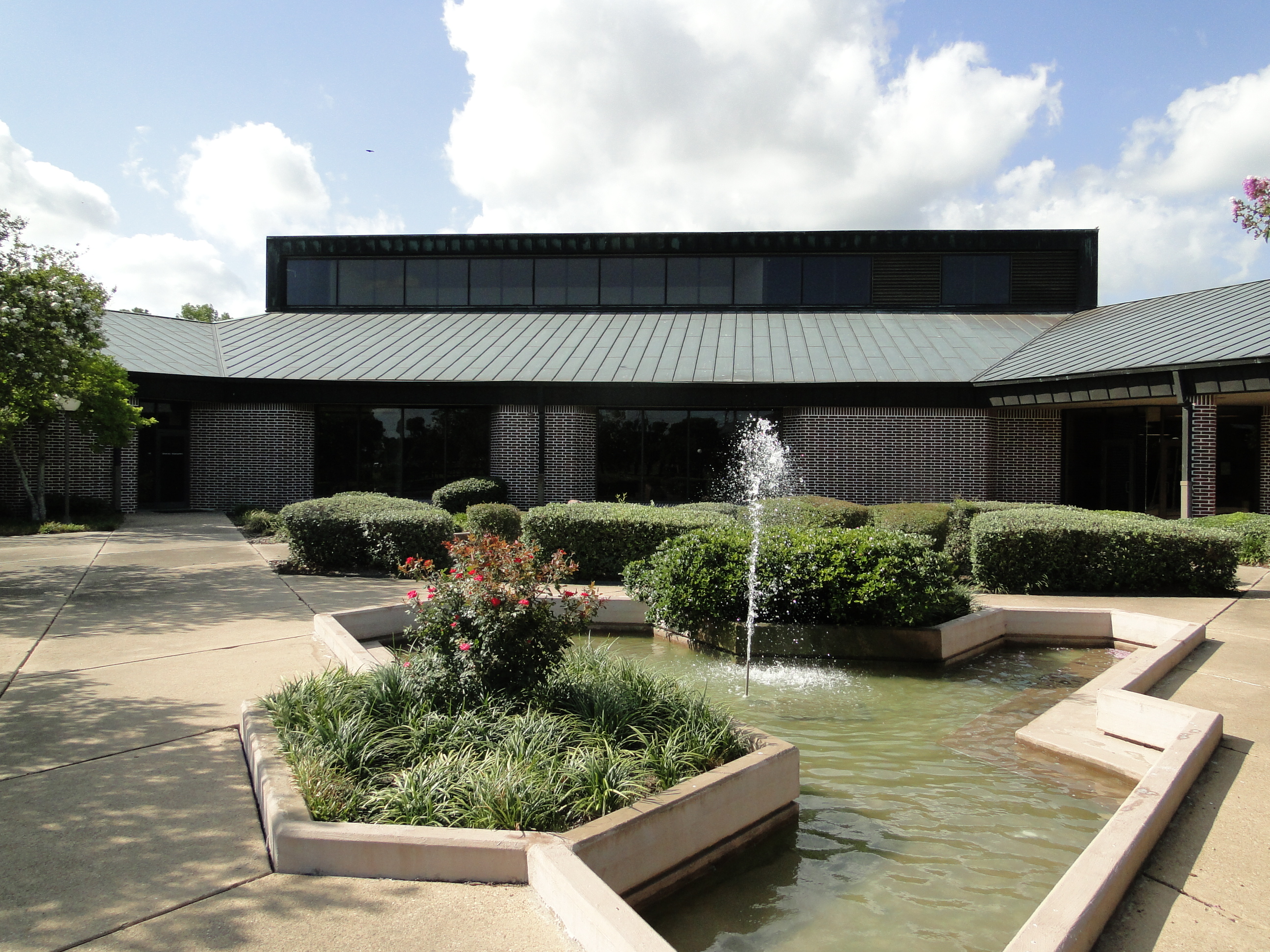 One of the many fountains at Lamar University's John Gray Center.